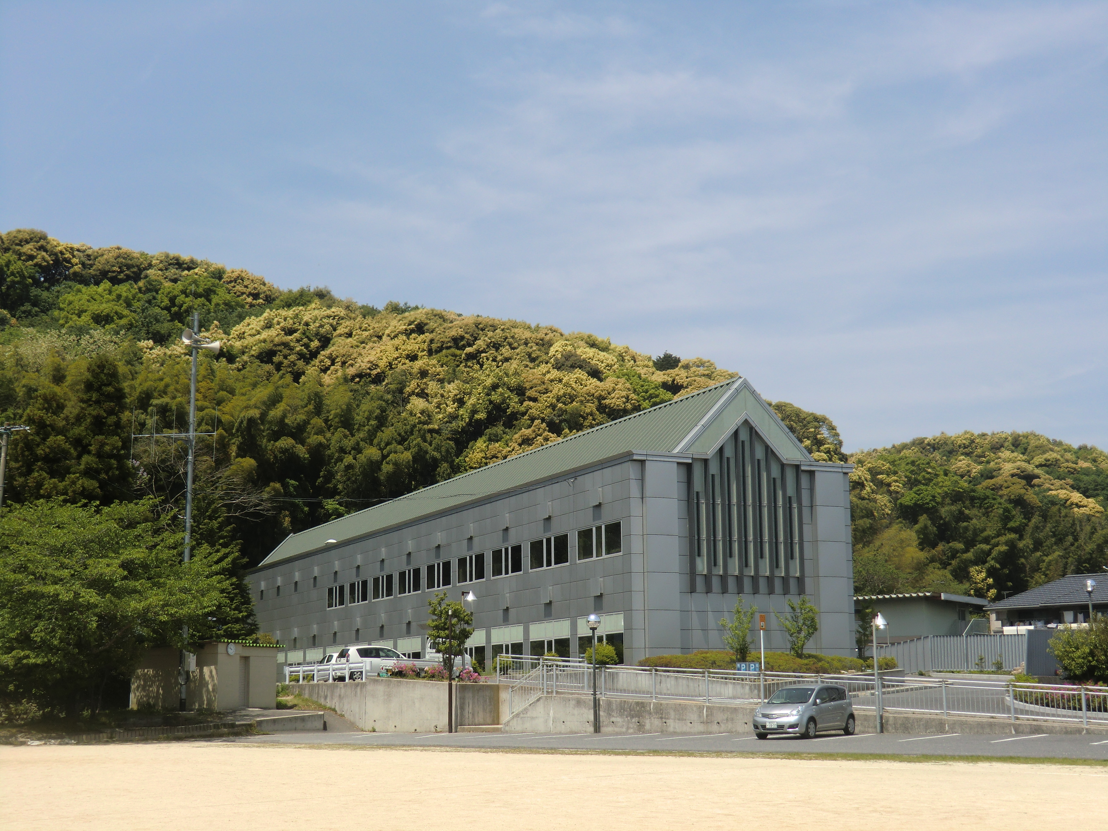 Toyokawa City Otowa Library (豊川市音羽図書館), located at 47-1 Nishiura, Akasaka-cho, Toyokawa, Aichi, Japan